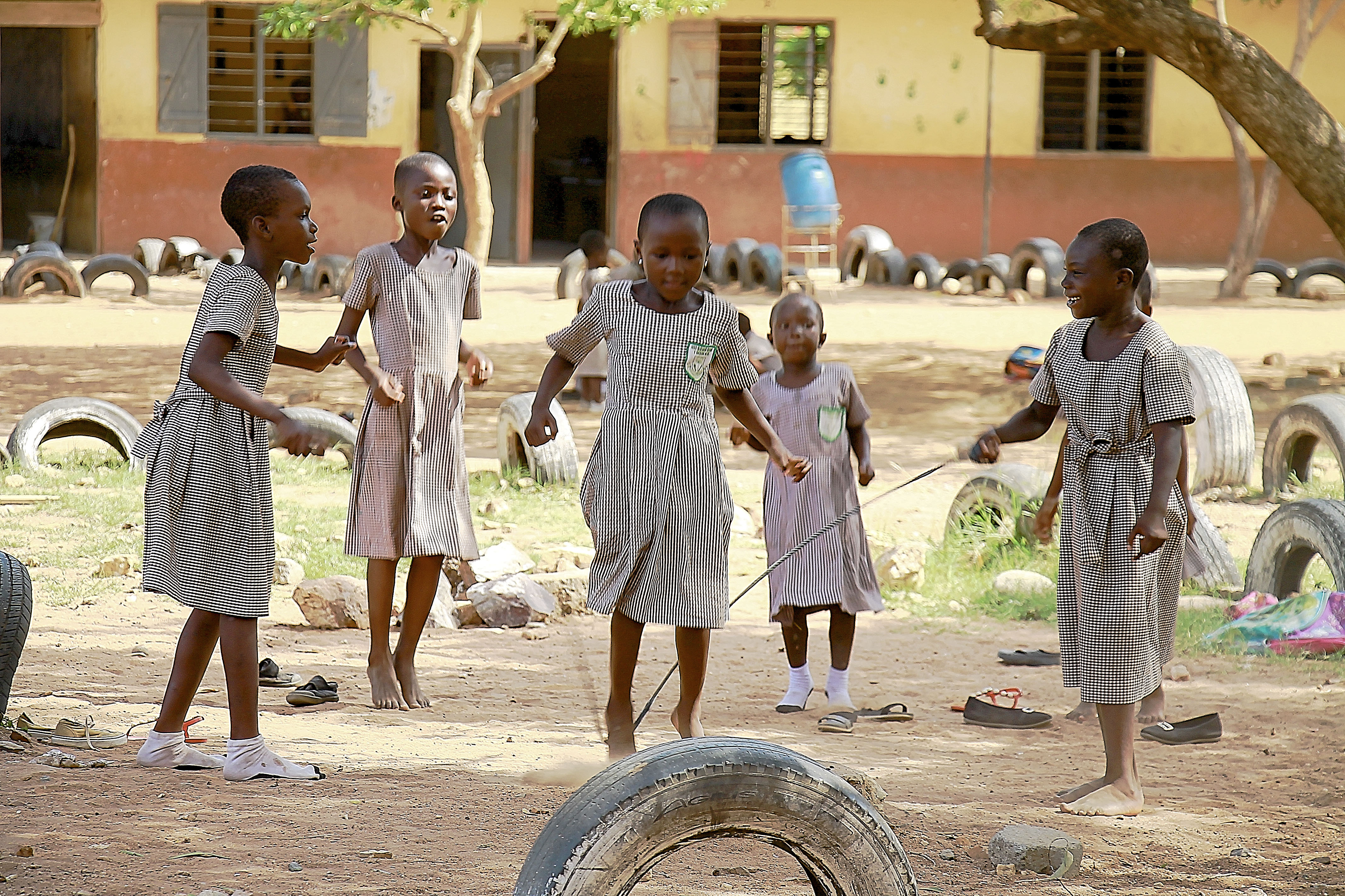 These are pupils from Ghana playing with the skipping rope at break This is an image with the theme "Play" from: Ghana